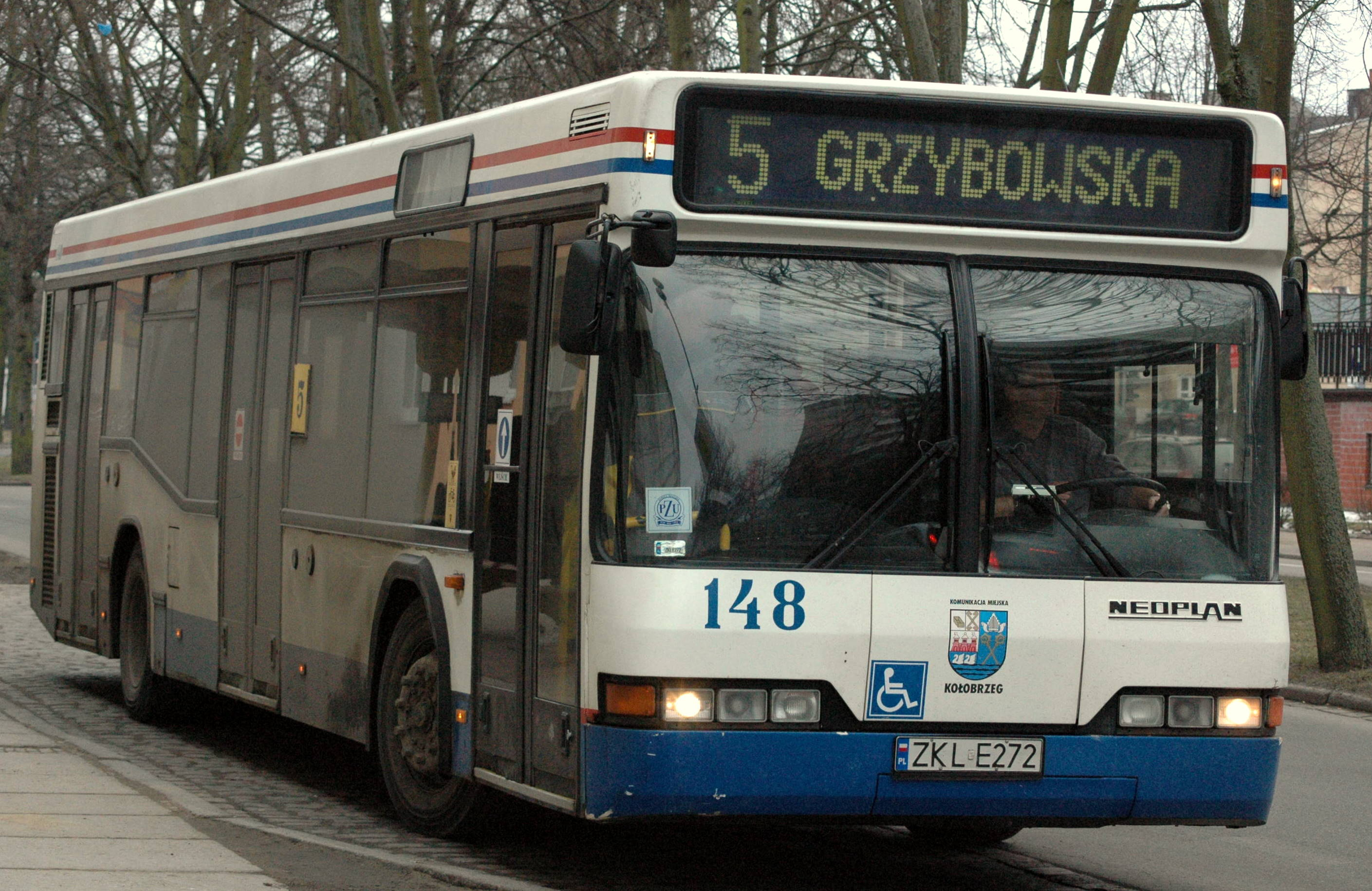 Neoplan N4016 city bus (#148) in Kołobrzeg, Poland. Built 1997, Komunikacja Miejska w Kołobrzegu operator.